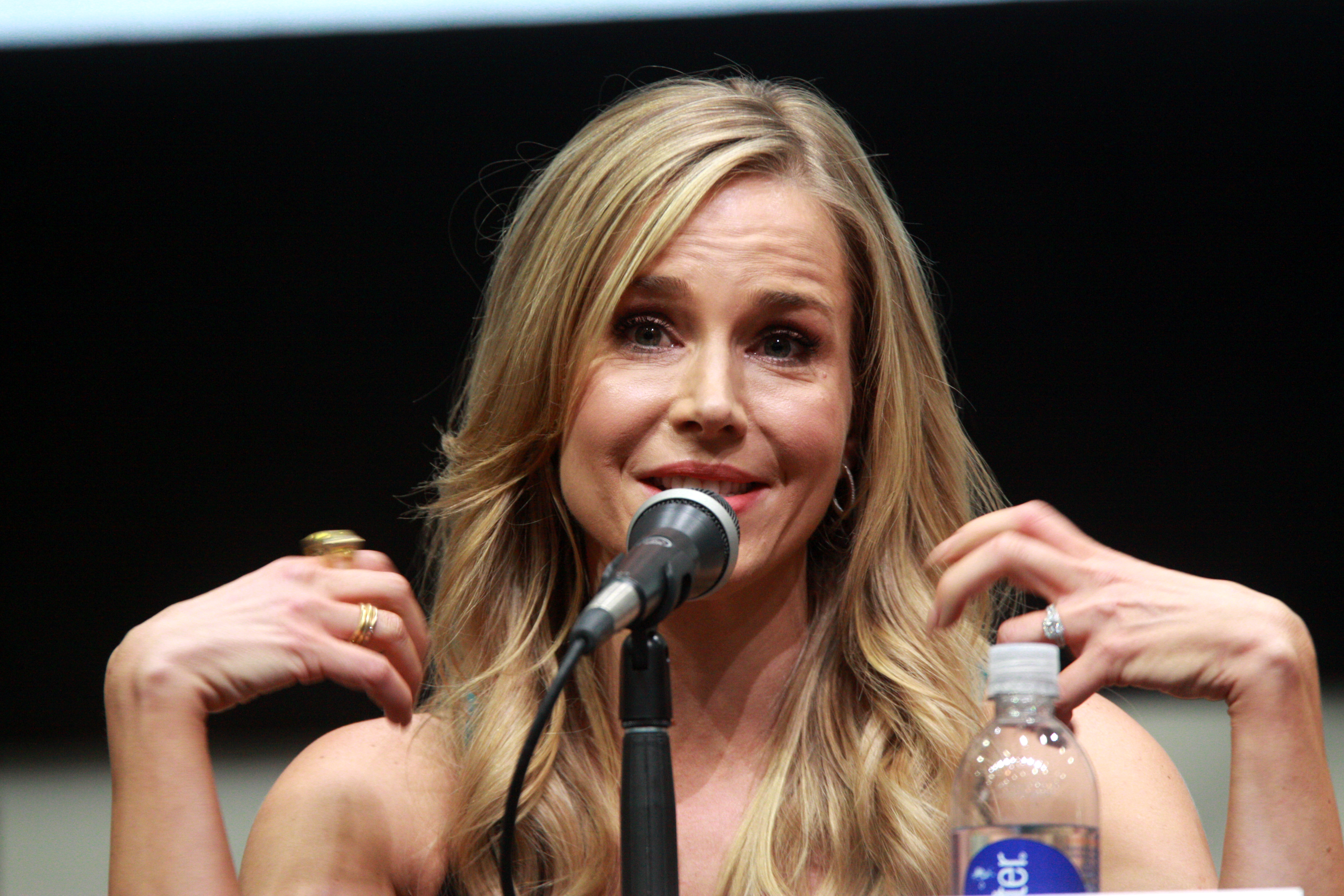 Julie Benz speaking at the 2013 San Diego Comic Con International, for "Dexter", at the San Diego Convention Center in San Diego, California.